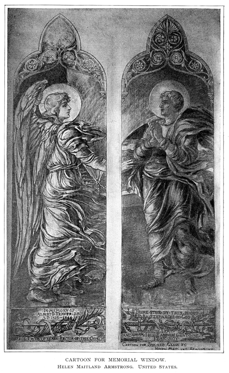 Cartoon for a memorial window by Helen Maitland Armstrong shown in the Women's Building at the World's Columbian Exposition of 1893.